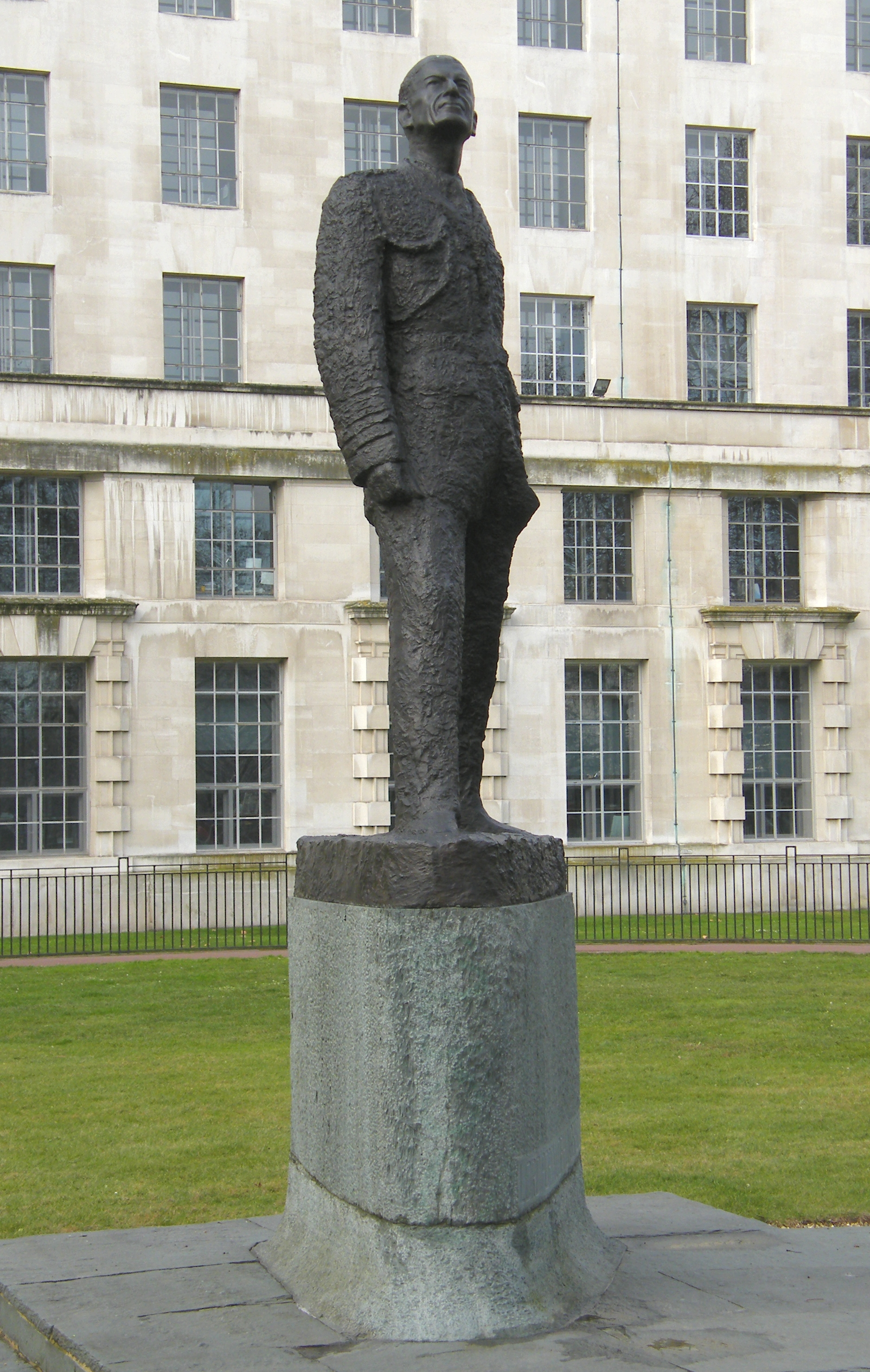 Lord Portal's statue on the Embankment, London